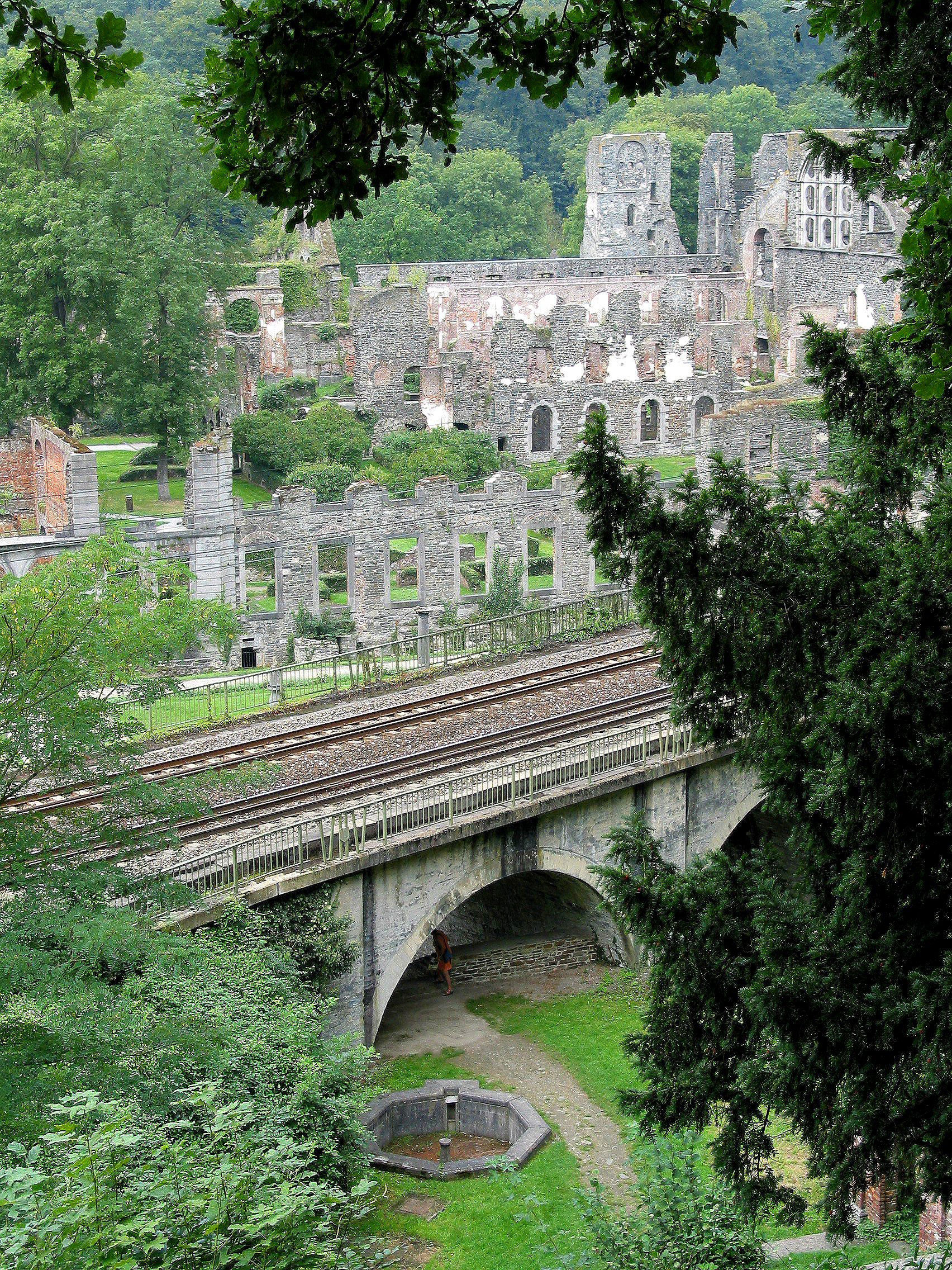 Villers-la-Ville (Belgium), abbey ruines and railway line view from the higher terace of the Abbot's palace gardens.